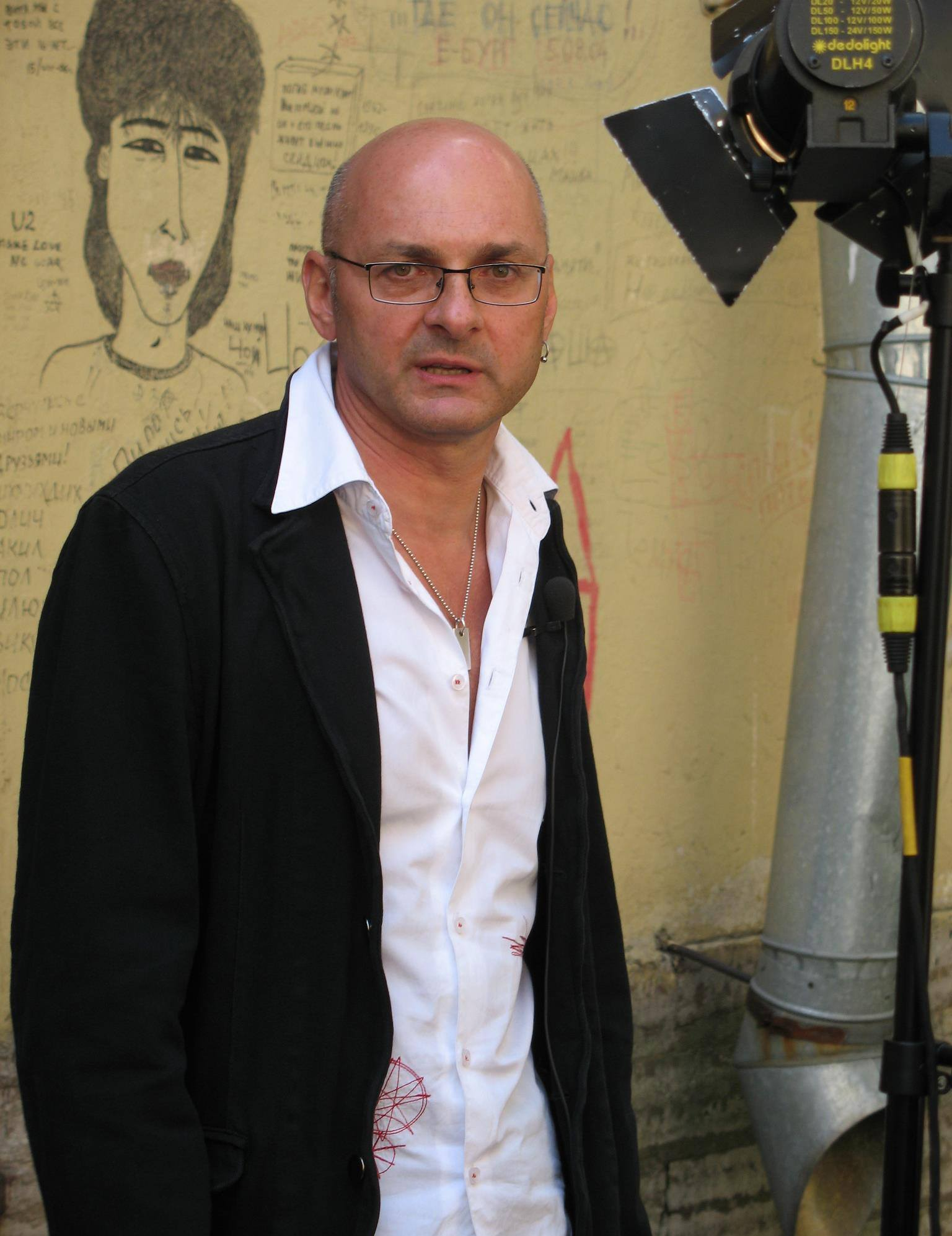 Viktor Sologub